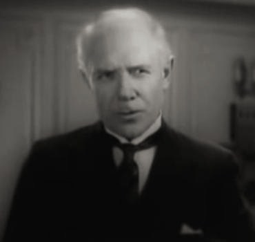 Ralph Lewis in Mystery Liner - cropped screenshot